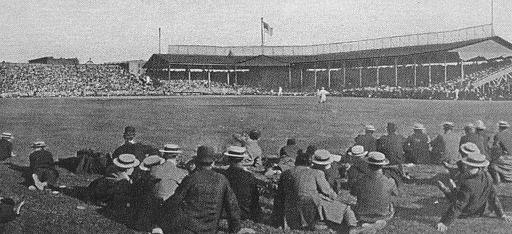 Photo of the second Washington Park in Brooklyn